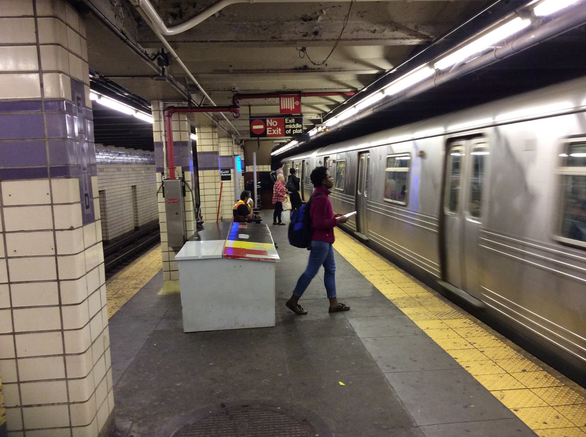 Manhattan bound platform at Euclid Av